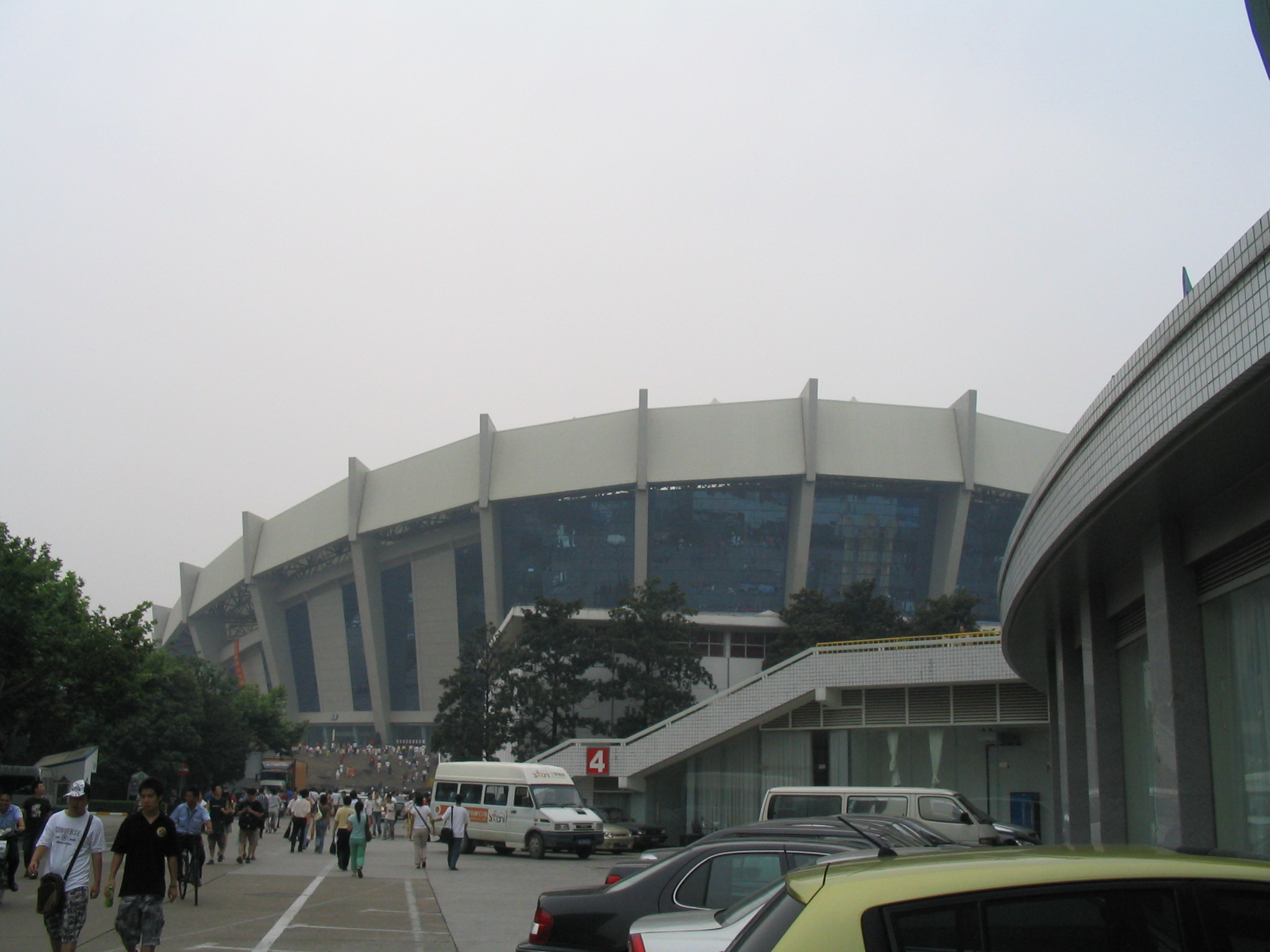 Picture taken by me 7/06 of stadium, full release of rights